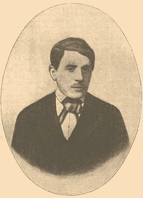 Micah Joseph Lebensohn